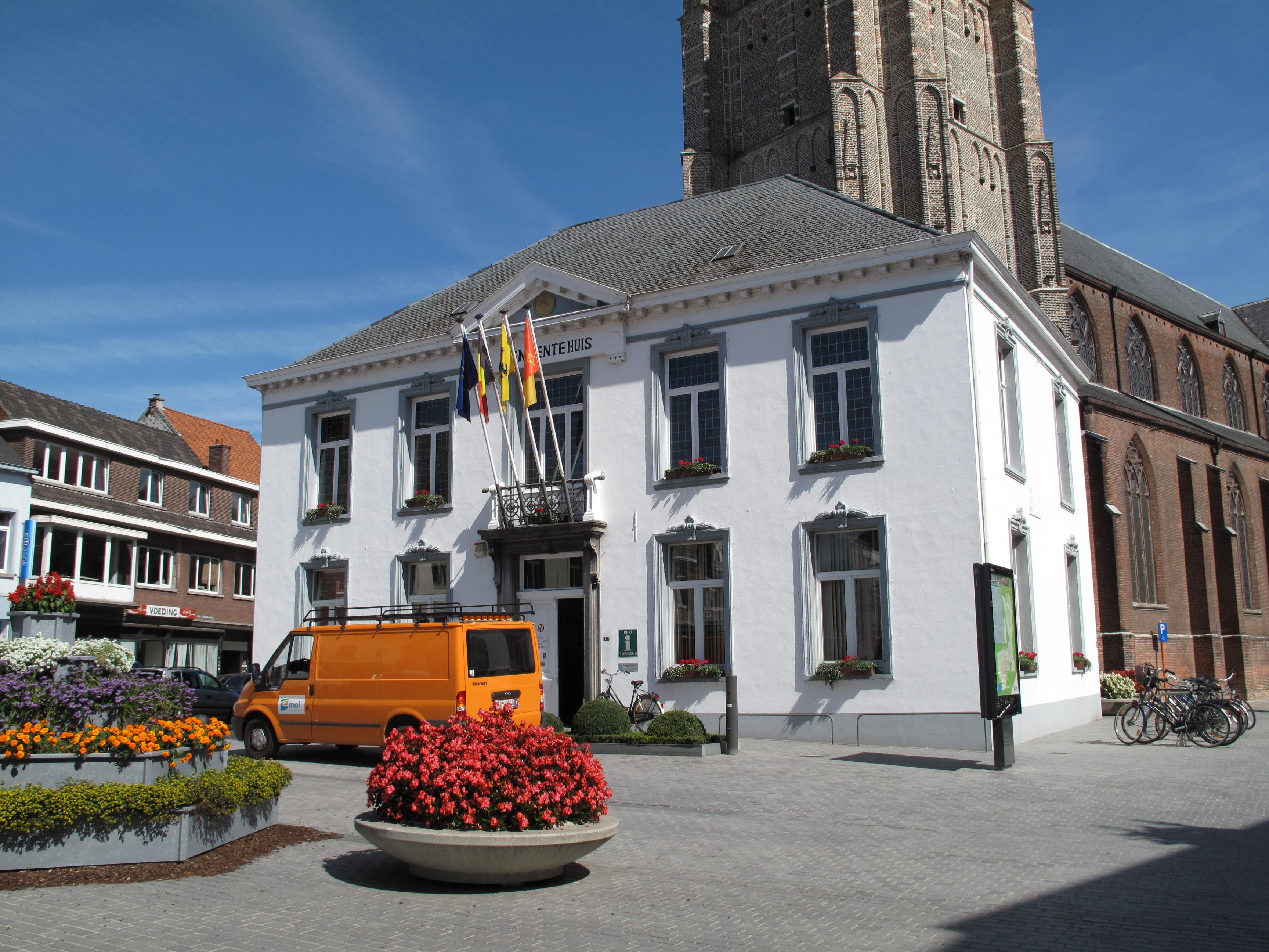 Mol, town hall